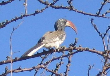 Monteiro's Hornbill (Tockus monteiri) taken in Namibia